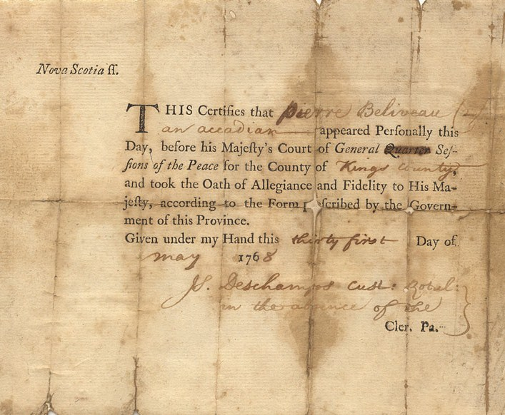 Oath of allegiance signed by Pierre Beliveau: "This certifies that Pierre Beliveau, an Acadian, appeared personally this day, before his Majesty's Court of General Sessions of the Peace for the County of Kings County, and took the Oath of Allegiance and Fidelity to his Majesty, according to the form prescribed by the Government of this Province. Given under my hand this thirty-first day of May 1768."